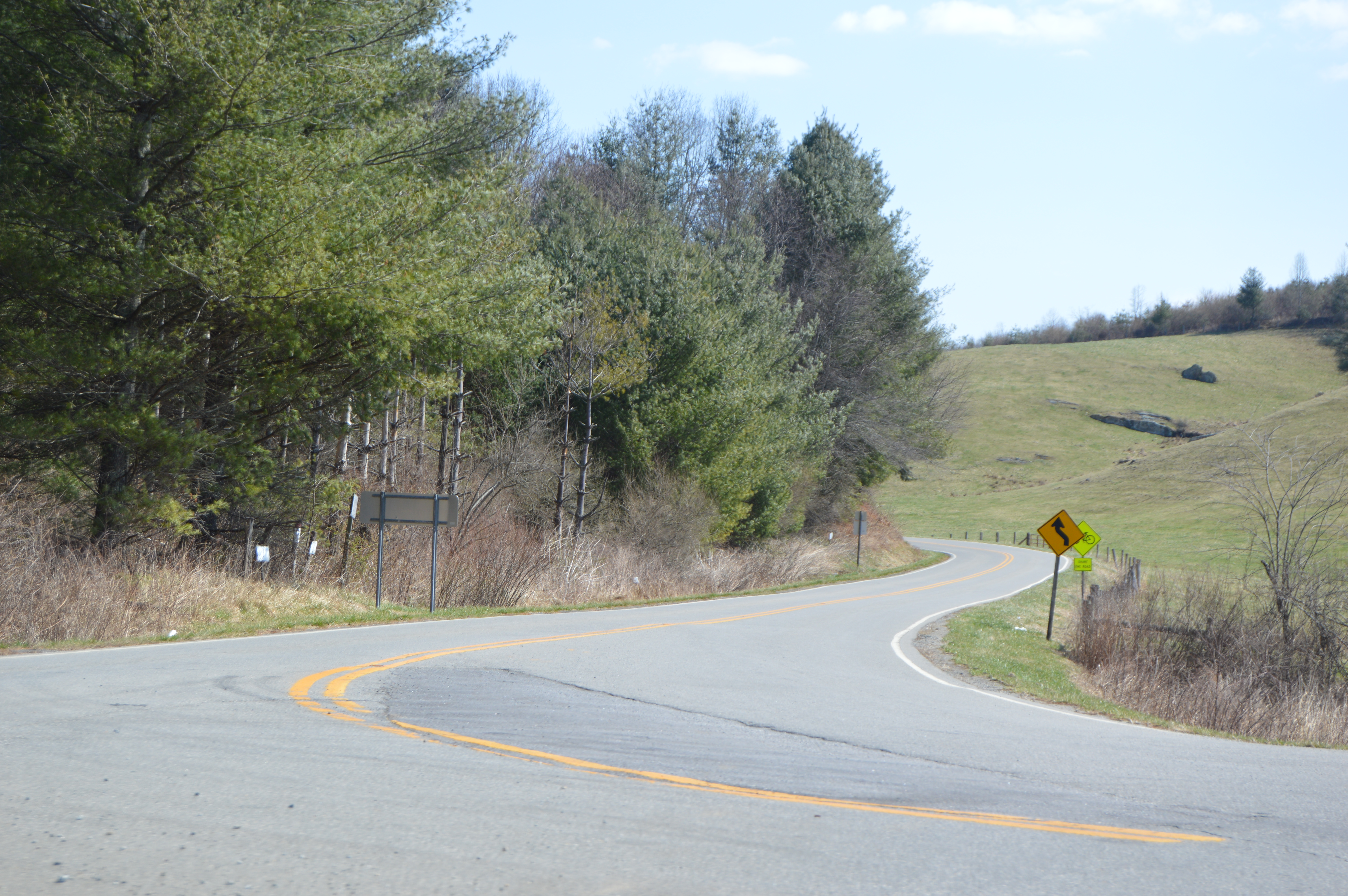 Looking eastward on North Carolina Highway 93 from the North Carolina Highway 113 intersection in far northern Alleghany County, North Carolina, United States.